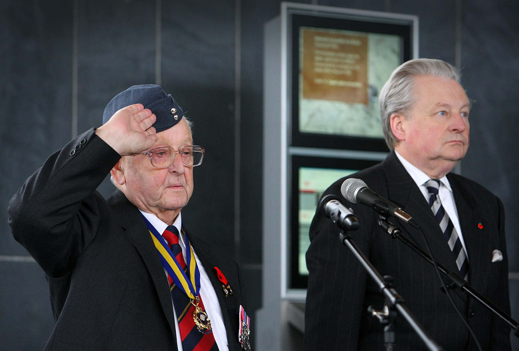 Remembrance Sunday Silence, Senedd 2009